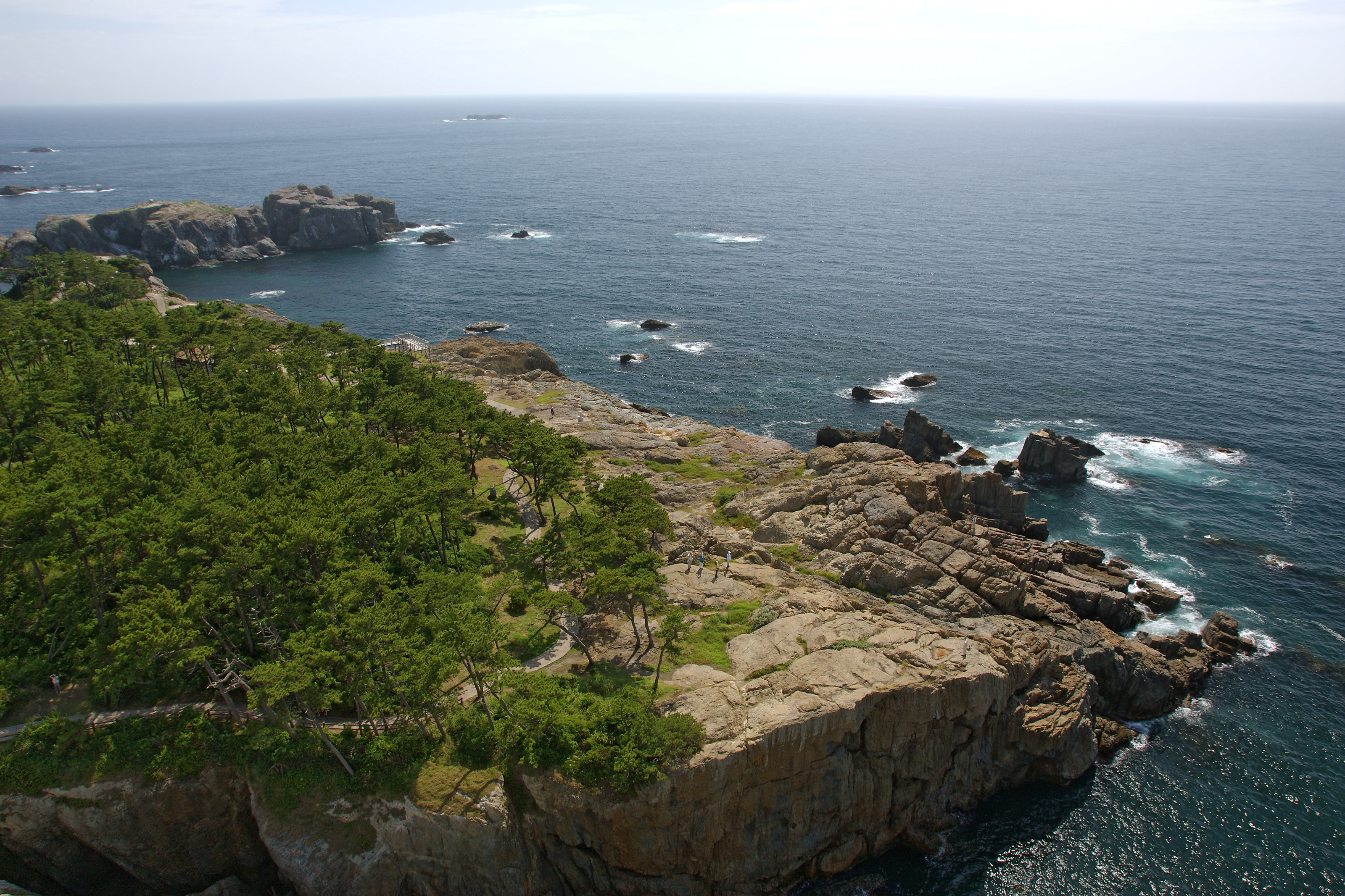 Cape Hinomisaki in Izumo, Shimane prefecture, Japan